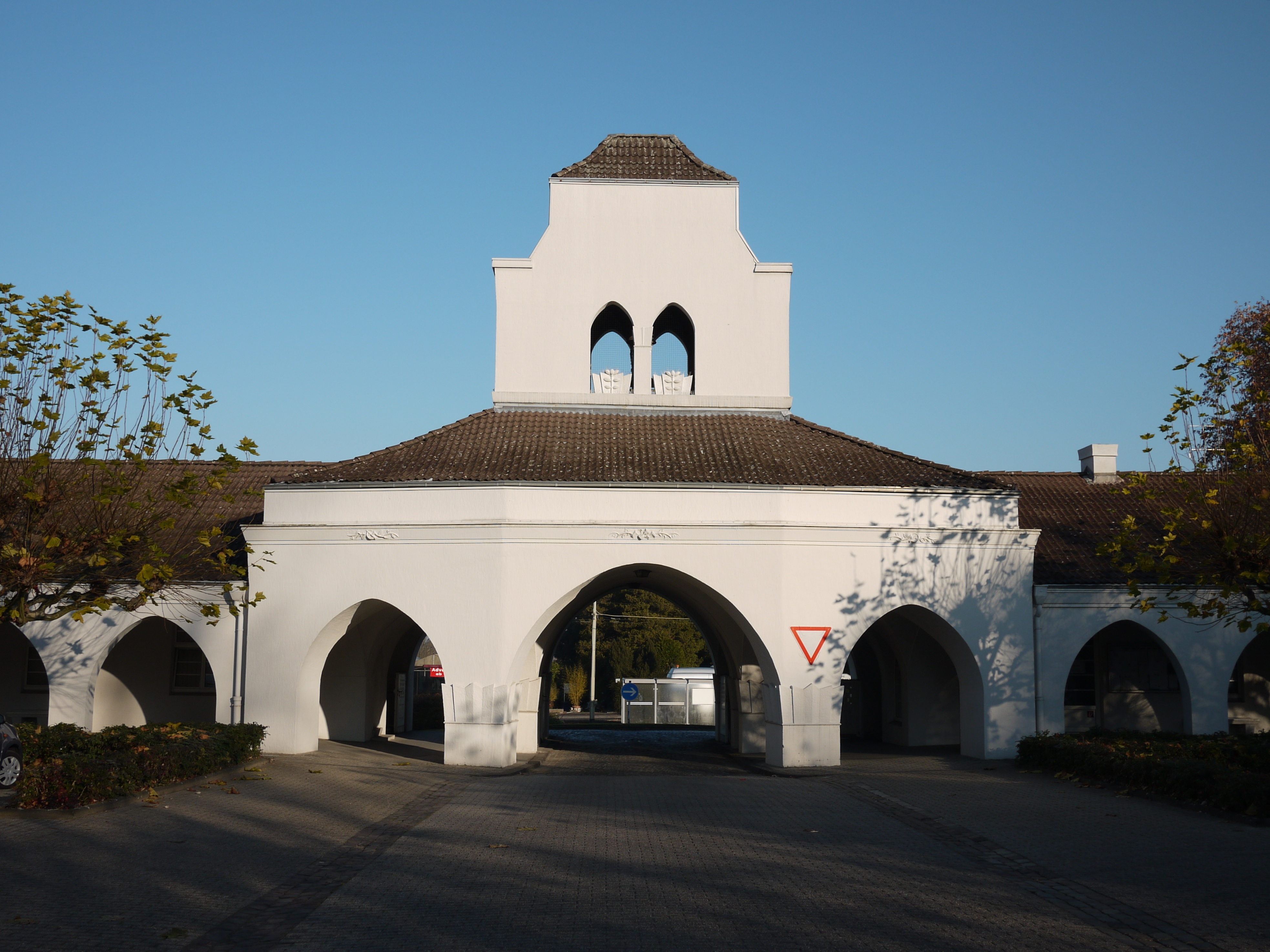 Haupttfriedhof in Mülheim an der Ruhr, Portal This is a photograph of an architectural monument.